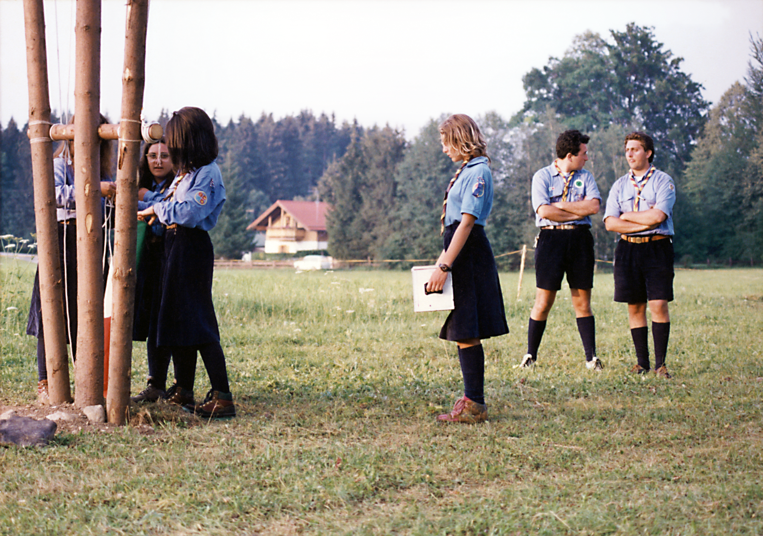 Italian Scouts and Girl Guides of the Associazione Guide e Scouts Cattolici Italiani (AGESCI) at a flag ceremony near the village of Bad Heilbrunn, Bavaria.